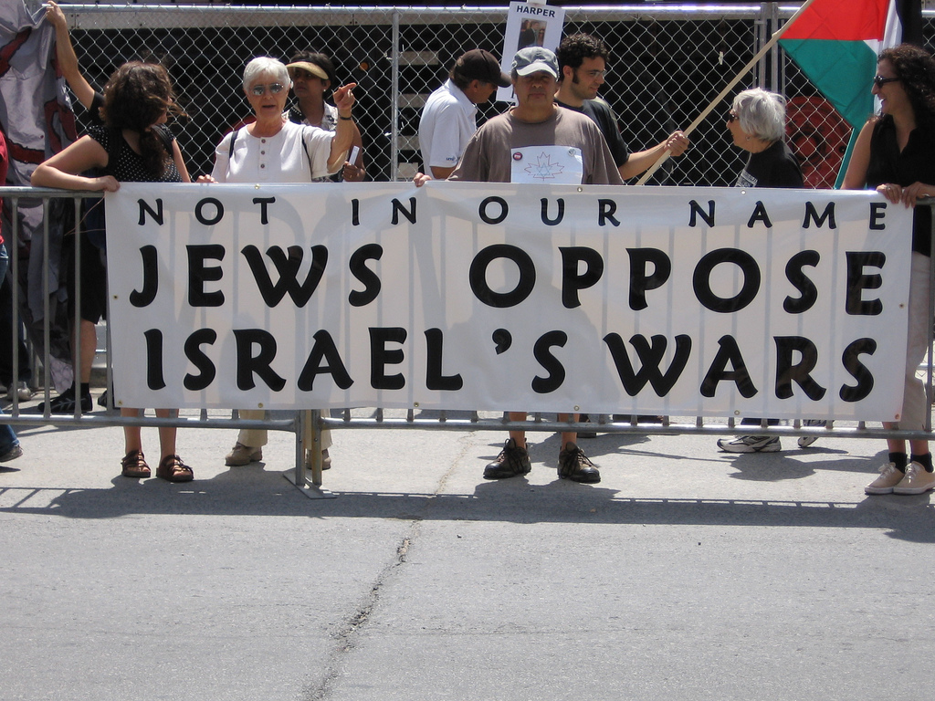 "August 12/06 Rally in Toronto, Canada against Israeli aggression/occupation of Palestine and Lebanon" [1]